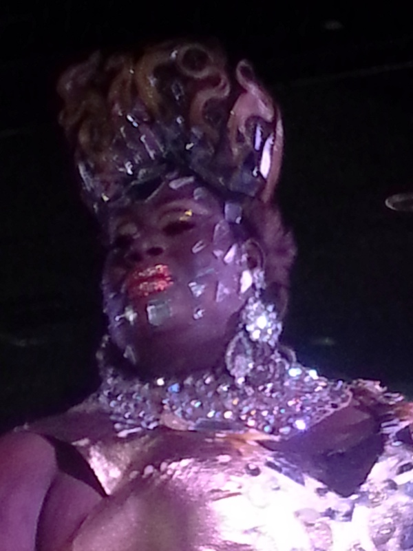 Latrice Royale performing at The Café in San Francisco, California, United States.